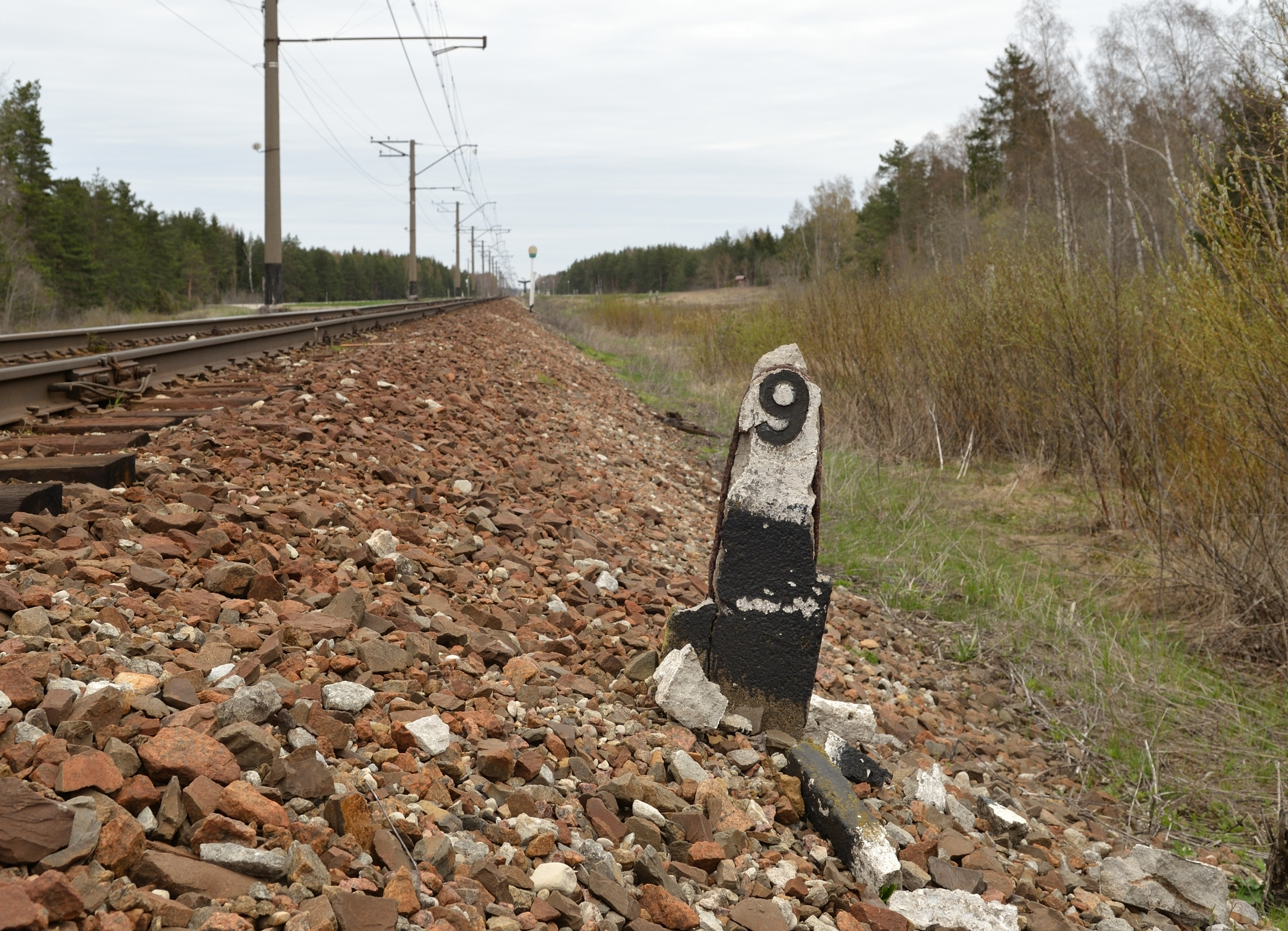 Old kilometer sign by the Vasalemma-Keila railway